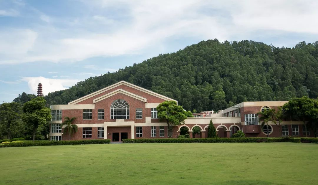 approved by ulink college to be used in Wikipedia